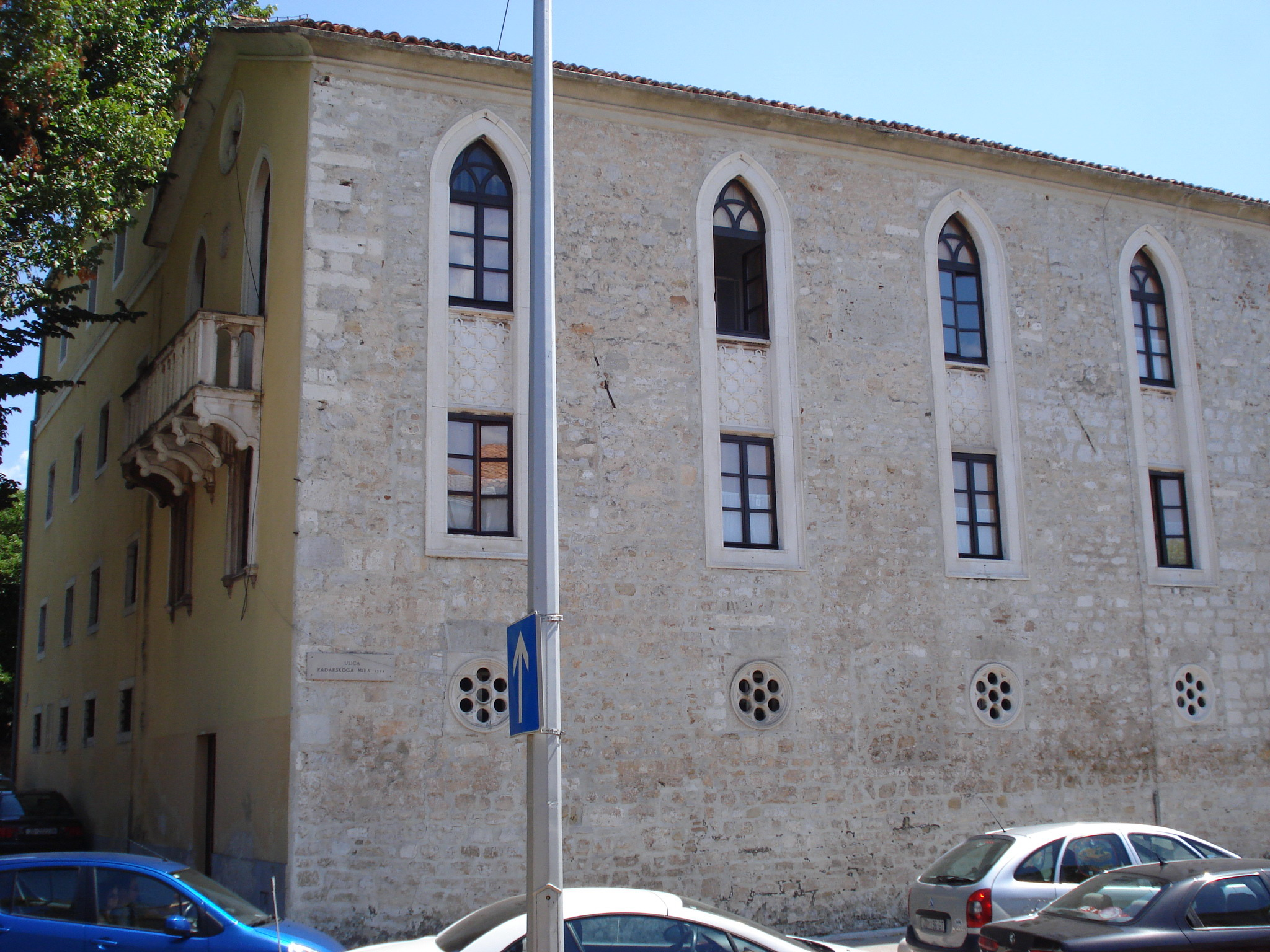 Monastery of St. Francis of Assisi, Zadar, Croatia - west viewHrvatski: Samostan sv. Franje Asiškog, Zadar, Hrvatska - pogled sa zapadne strane